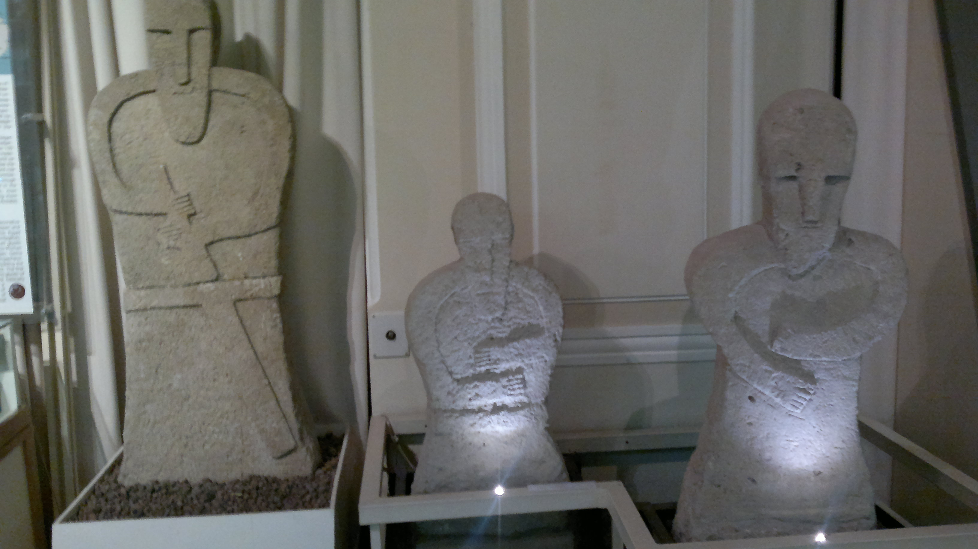 Balbals-stone statues from Chiragly (Shamakha). 3rd century BC - 2nd century AD. Museum of History of Azerbaijan, Baku.